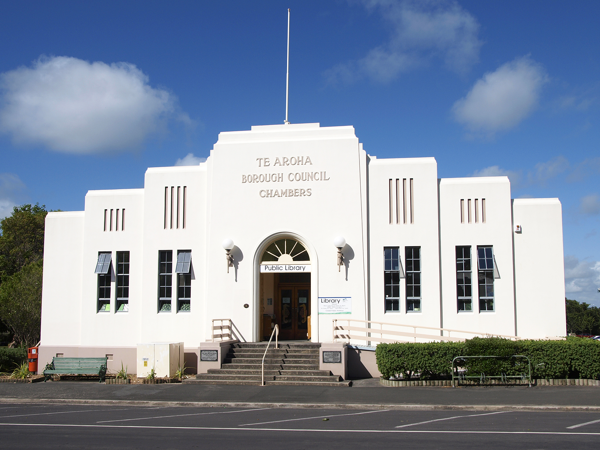 Borough Council Chambers, Te Aroha, Waikato Region, New Zealand, today used for a Library 43 Rewi St, Te Aroha NZ Historic Places Trust, list number 4286